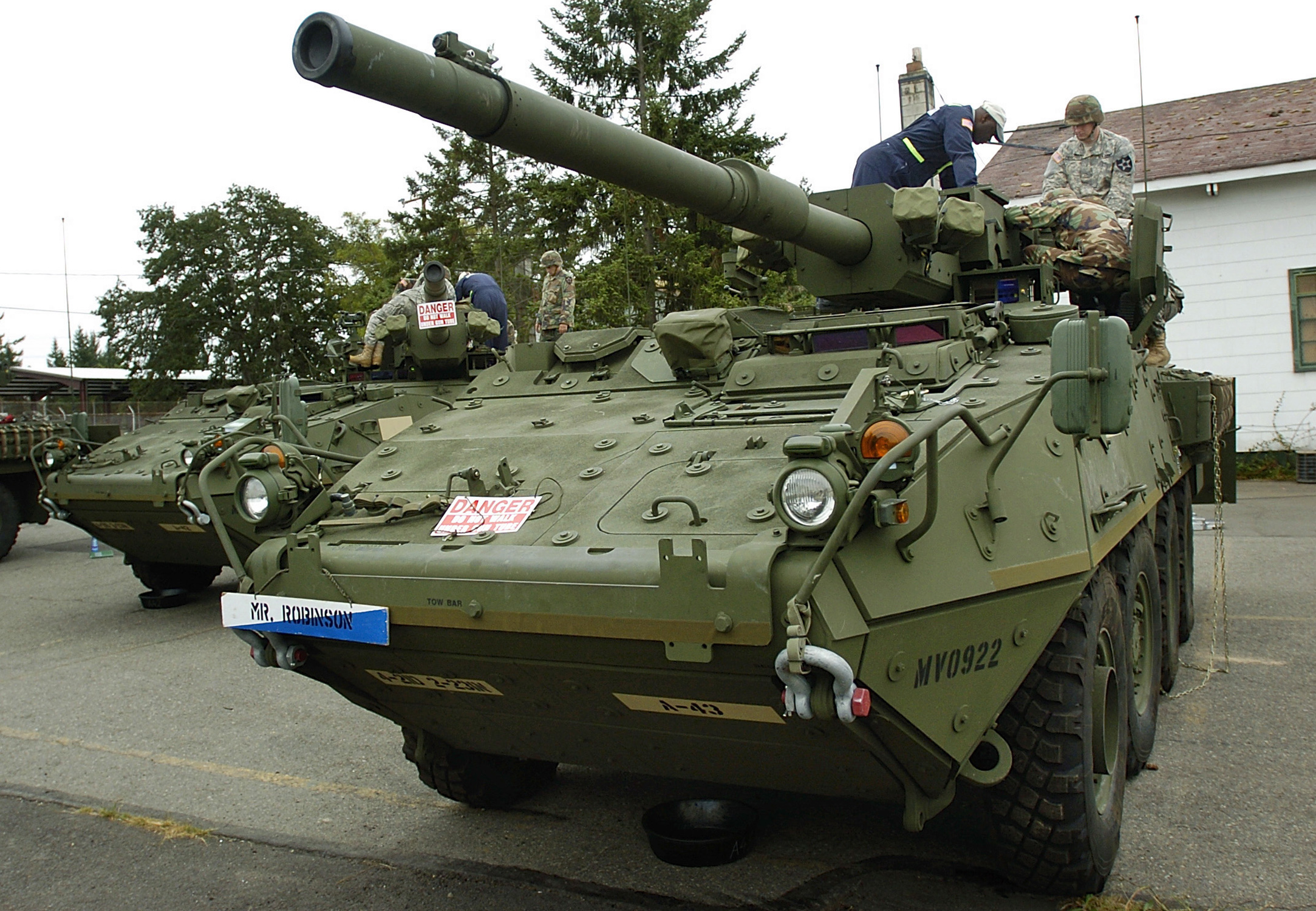 Soldiers from A Co., 2nd Battalion, 23 Infantry, train with the new Stryker Mobile Gun System.